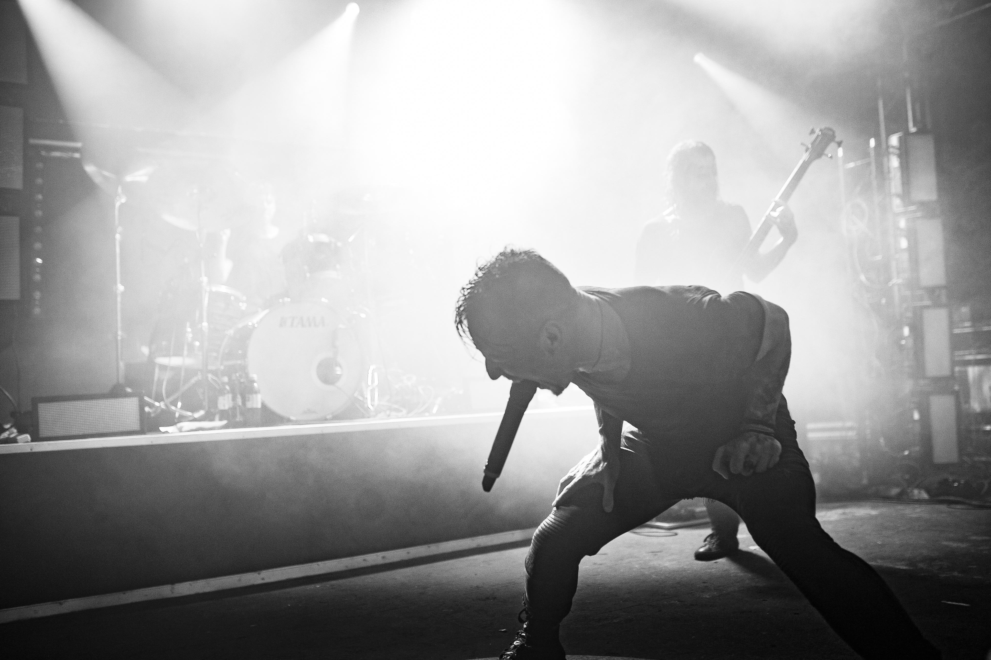 The Dillinger Escape Plan during their final tour in Europe. Last ever show in Europe, Leipzig, Germany 2017.